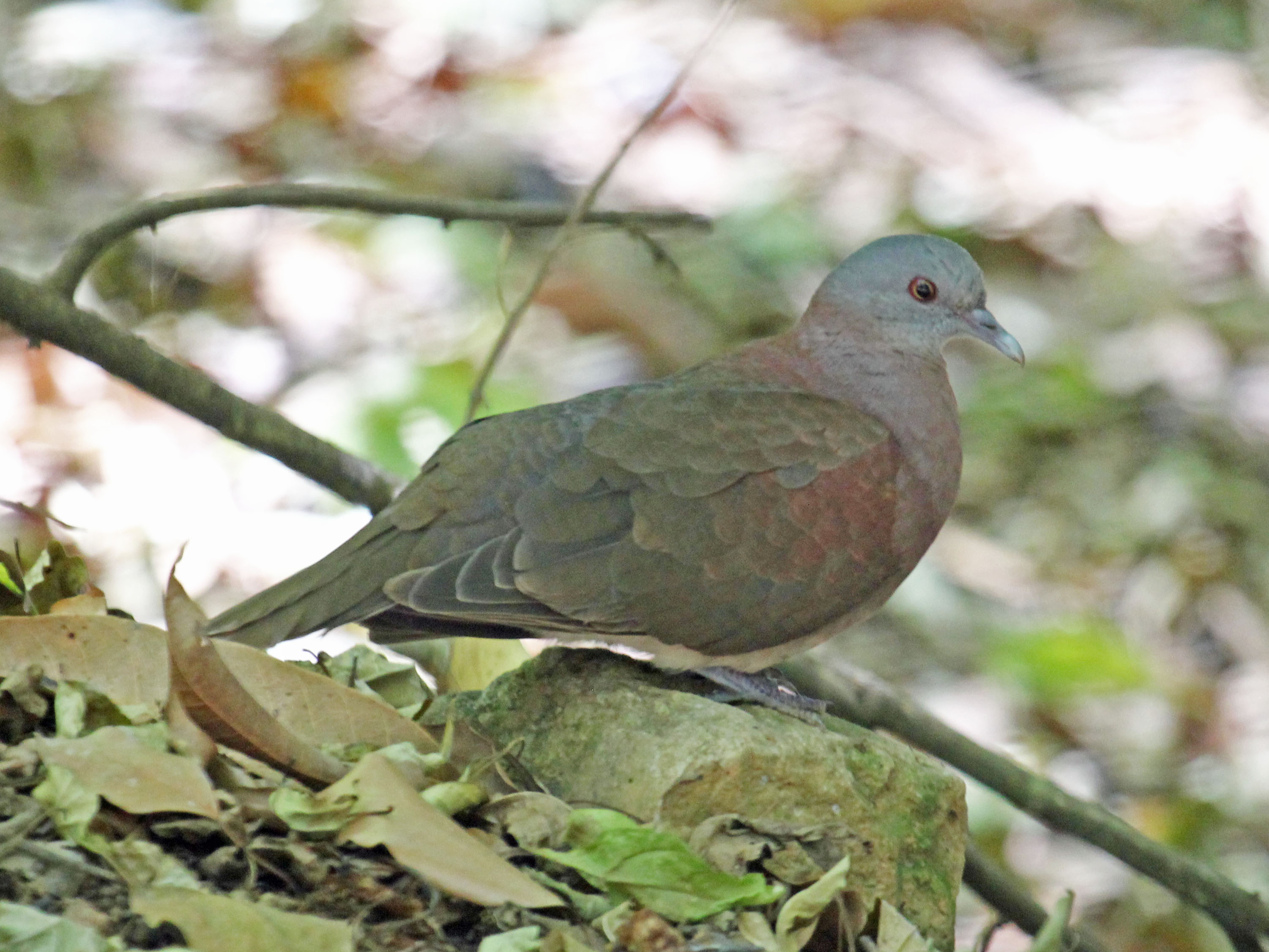 Malagasy Turtle Dove, also known as Madagascar Turtle Dove (Nesoenas picturata) - Parc Tsarasaotra (open bird sanctury in Antananrivo, Madagascar). The species Streptopelia picturata is also sometimes used for these doves.